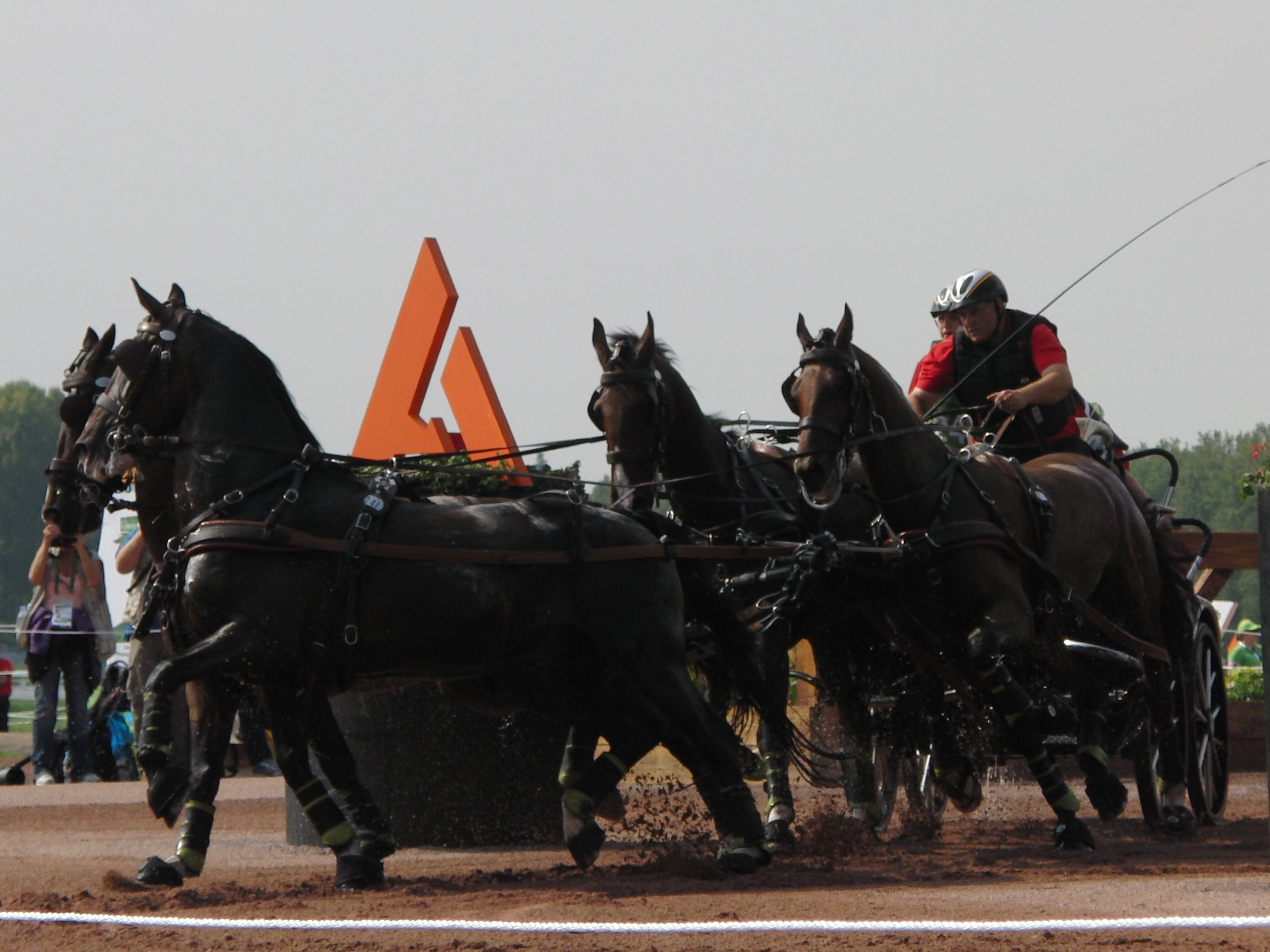 2014 FEI World Equestrian Games - Driving - Marathon - Christoph Sandmann for Germany